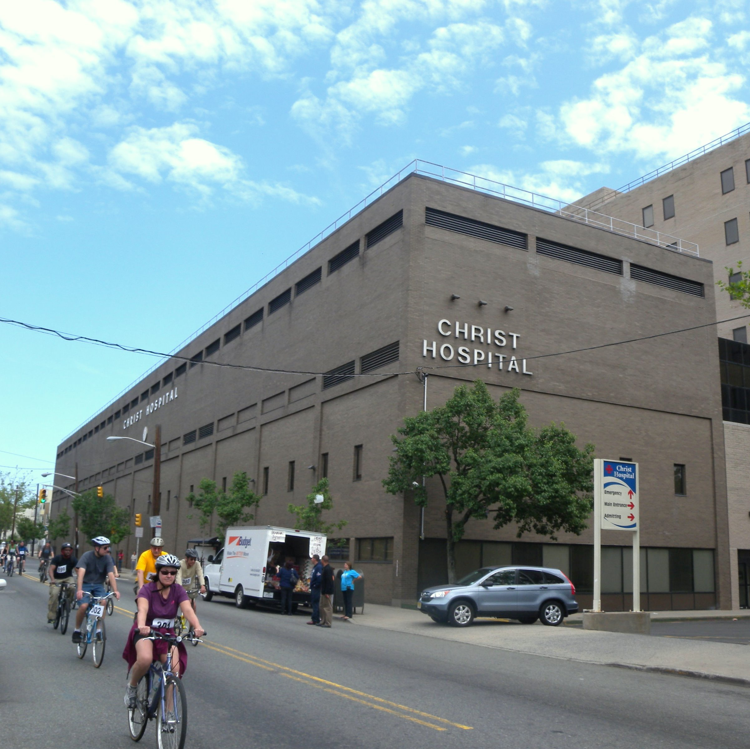 Looking north at Christ Hospital, 176 Palisade Avenue on a mostly cloudy midday.